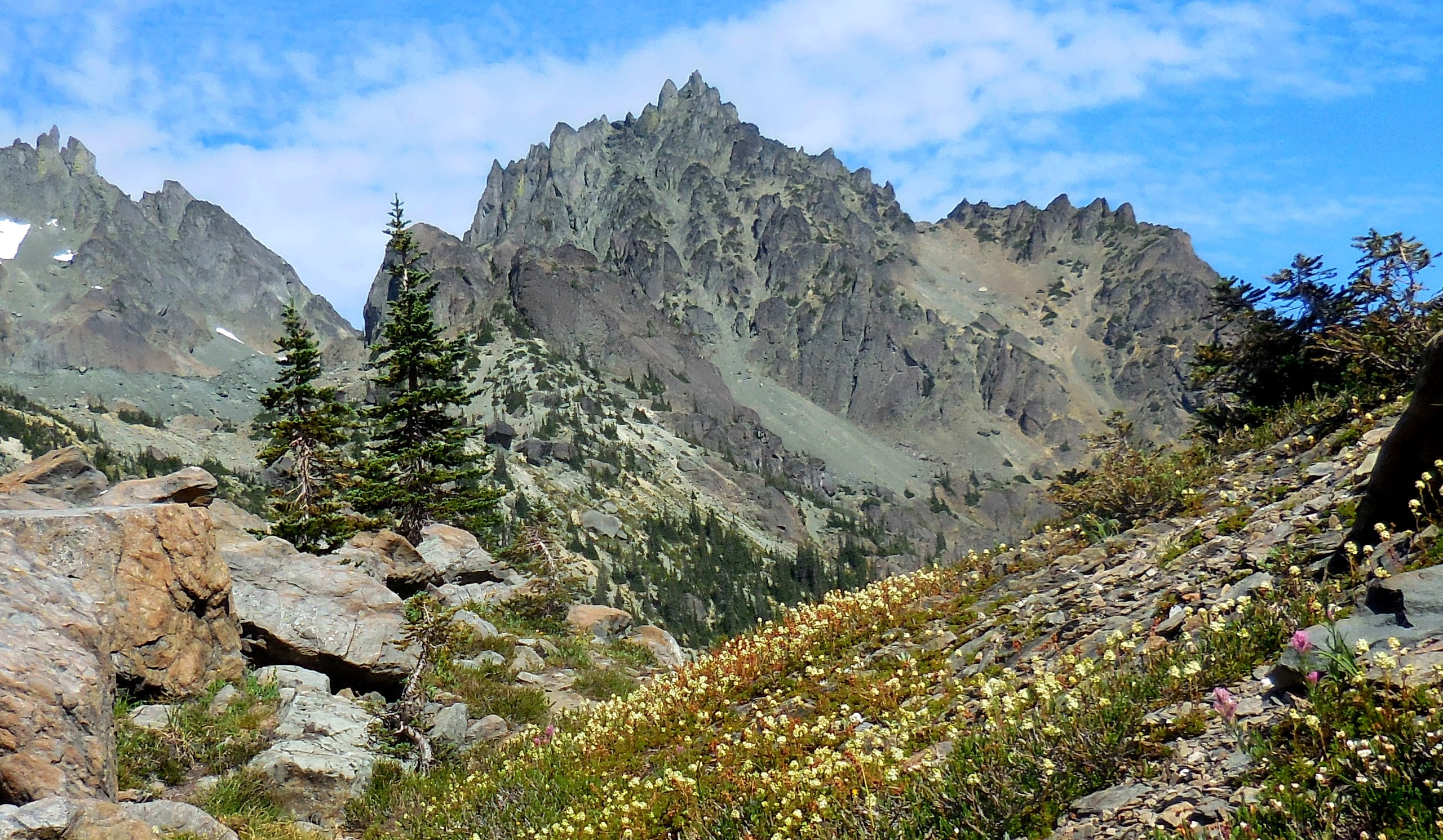 Sundial, subsidiary outlier of Mt. Clark